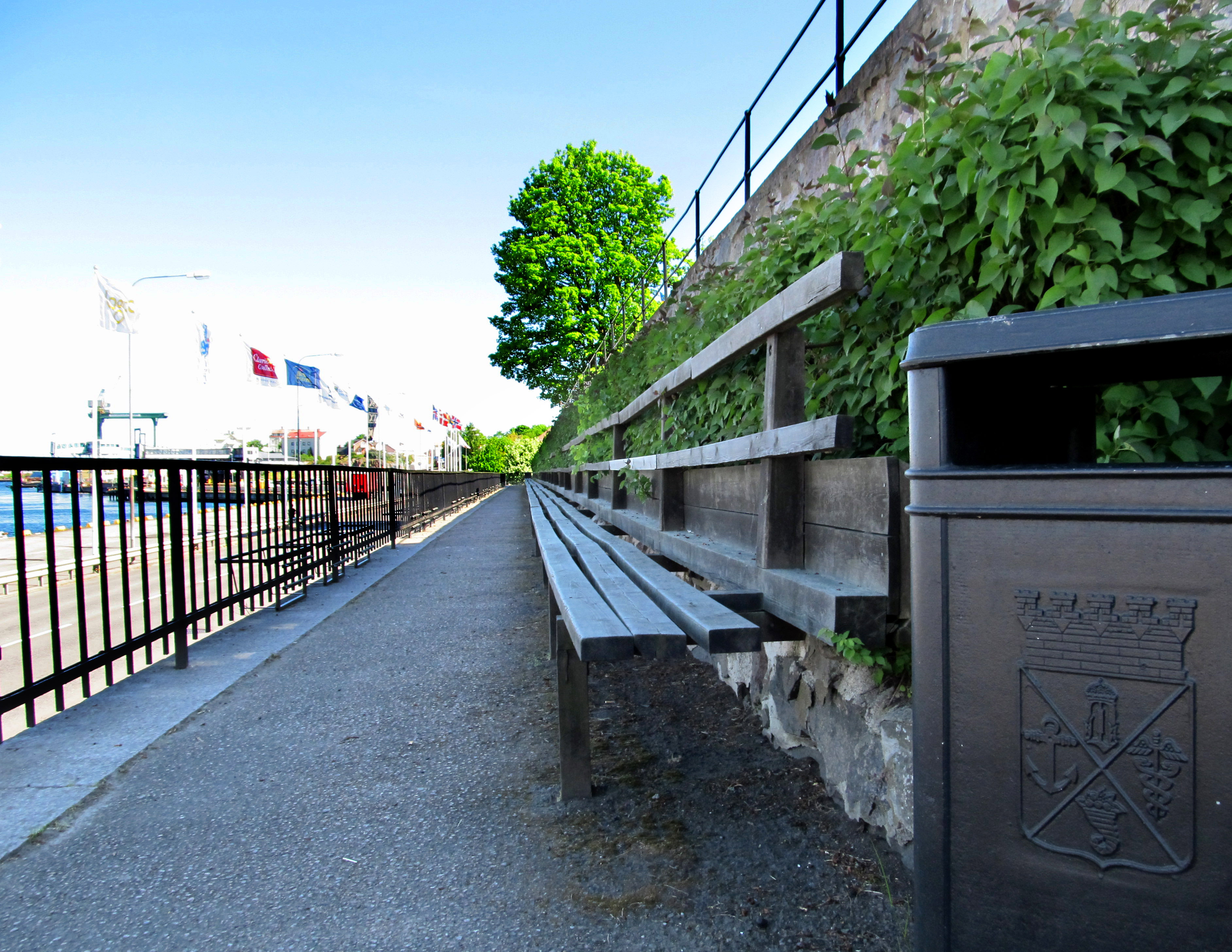 Långa soffan (Swedish for "the Long sofa"), a 72 meter (240 feet) long wooden bench overlooking Oskarshamn harbour, Sweden, erected in 1867 using port treasury funds.